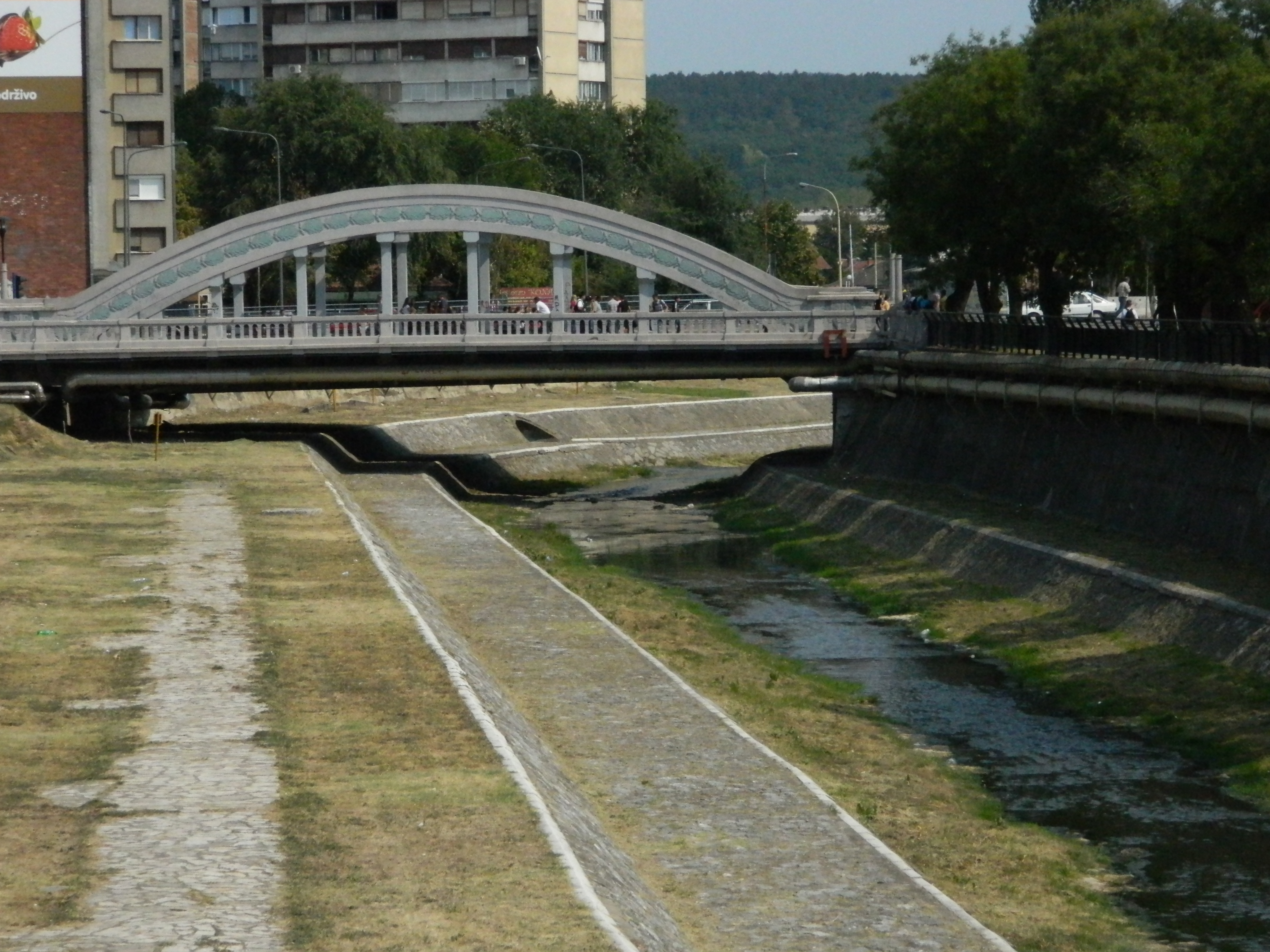 First Arch Bridge over Lepenica River in Kragujevac, Serbia.